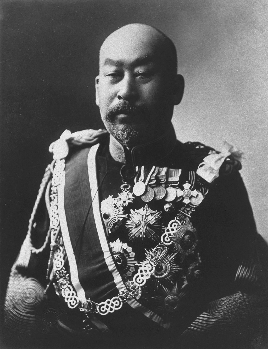 Portrait of Terauchi Masatake (寺内正毅, 1852 – 1919)